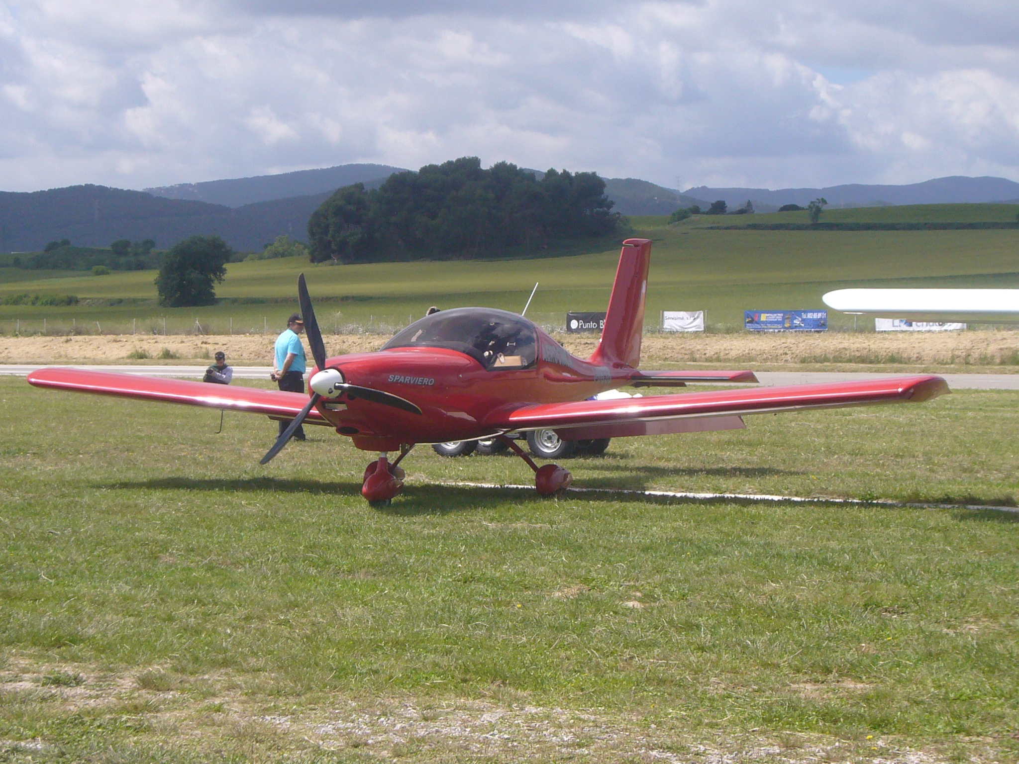 Aerosport airshow 2013